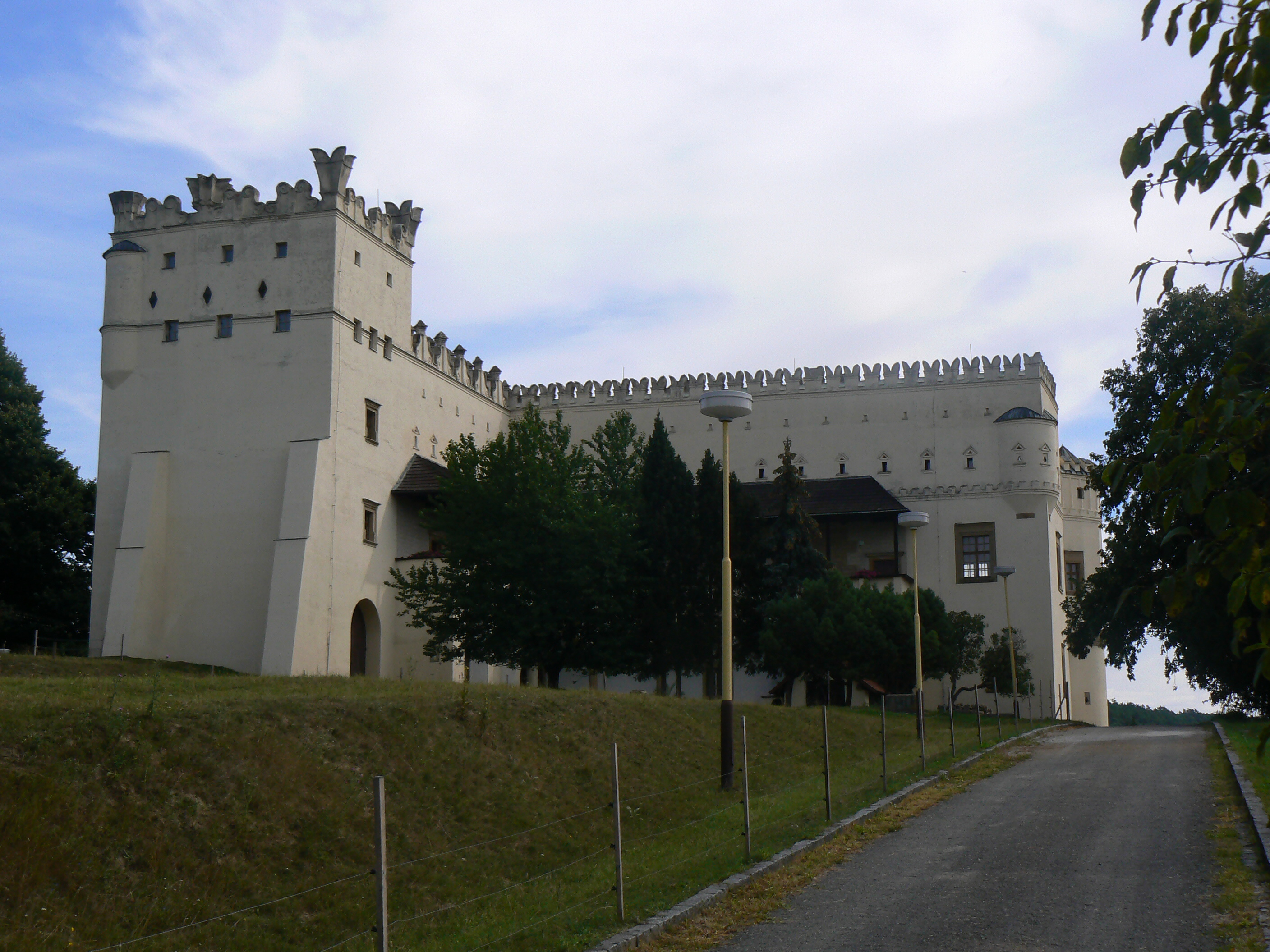 New Chateau in Nesovice.